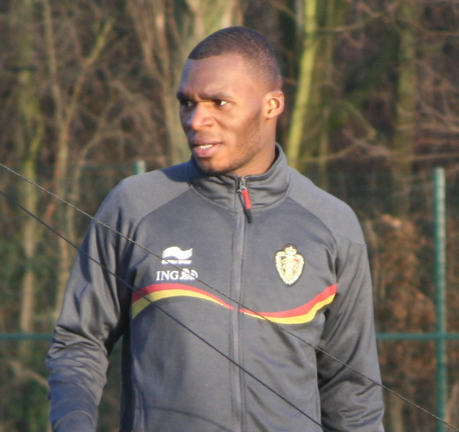 Christian Benteke during a training session with the belgian Red Devils